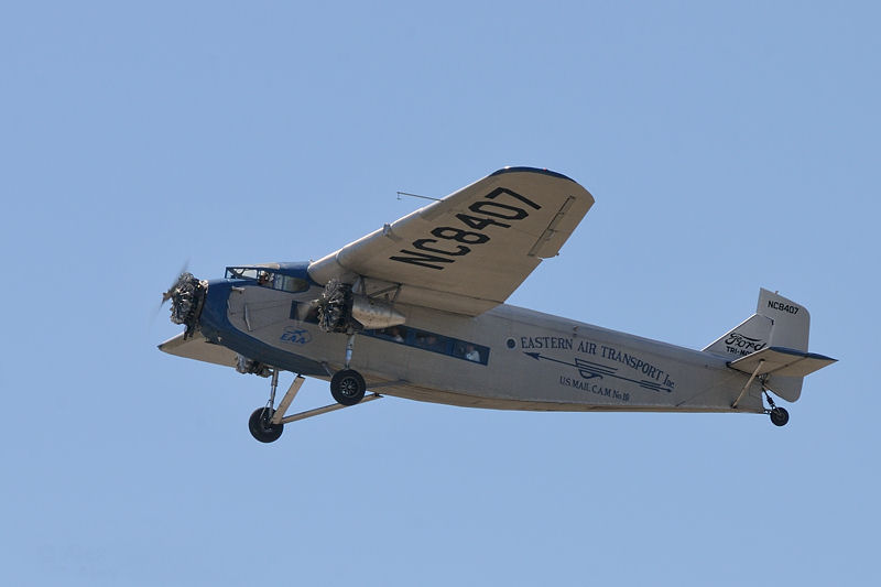 EAA's Ford Trimotor landing at KTMB